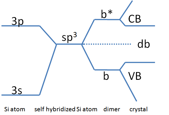 Harission Diagram-Si